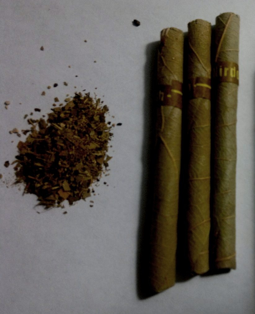 Nirdosh Herb, Cigarette, and Packaging